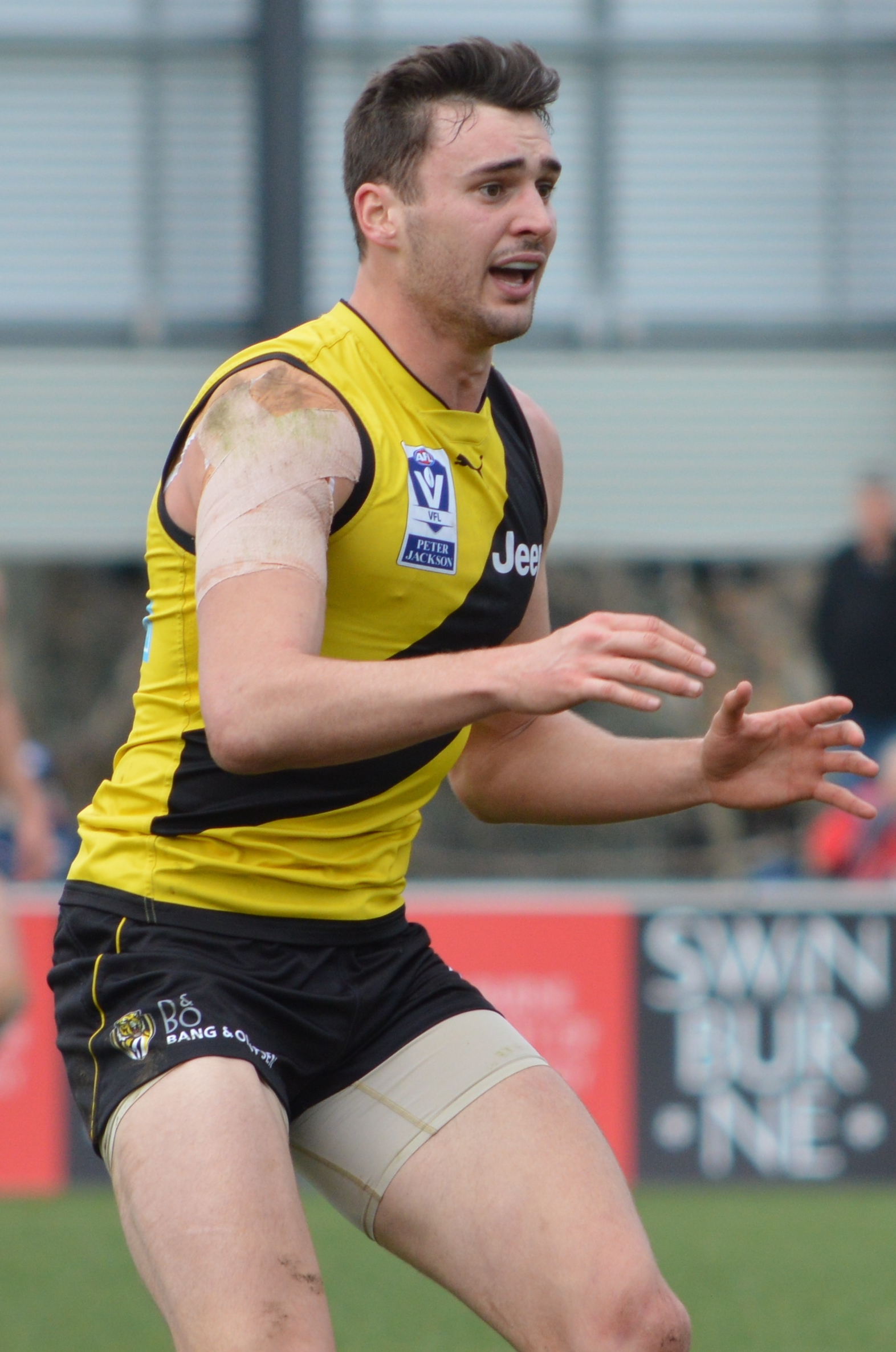 Todd Elton in a VFL match at Punt Road Oval in July 2017